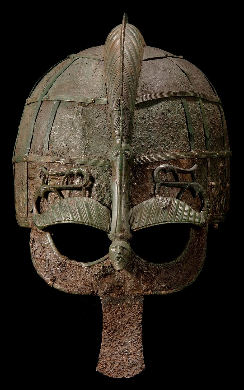 Photograph of the helmet from Vendel I